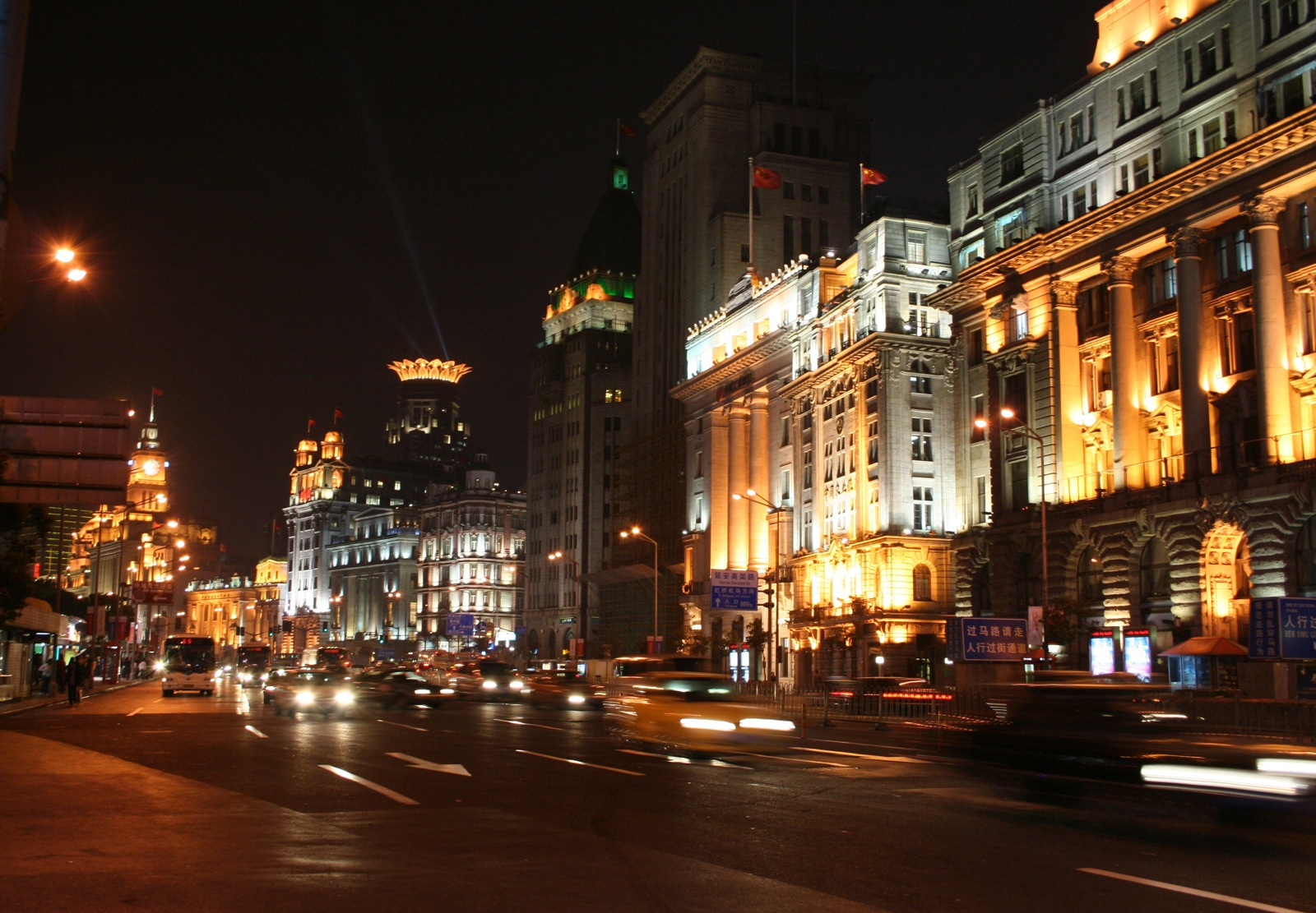 The Bund, Shanghai